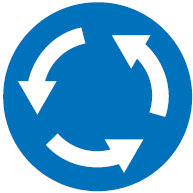 Luxembourg road sign diagram